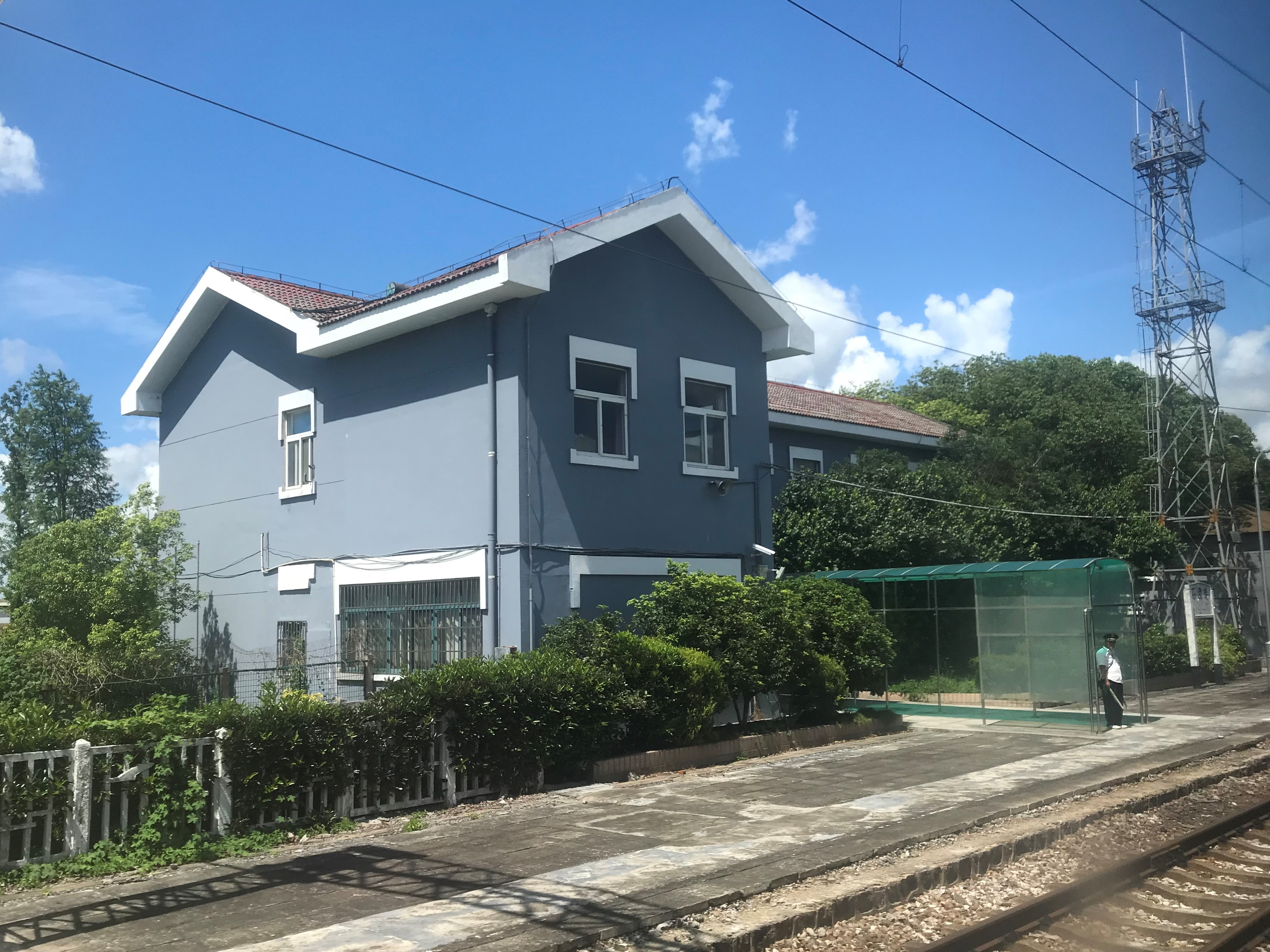 Nice to see such blue sky in the late summer